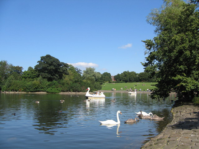 Swans! Saltwell Park boating lake.